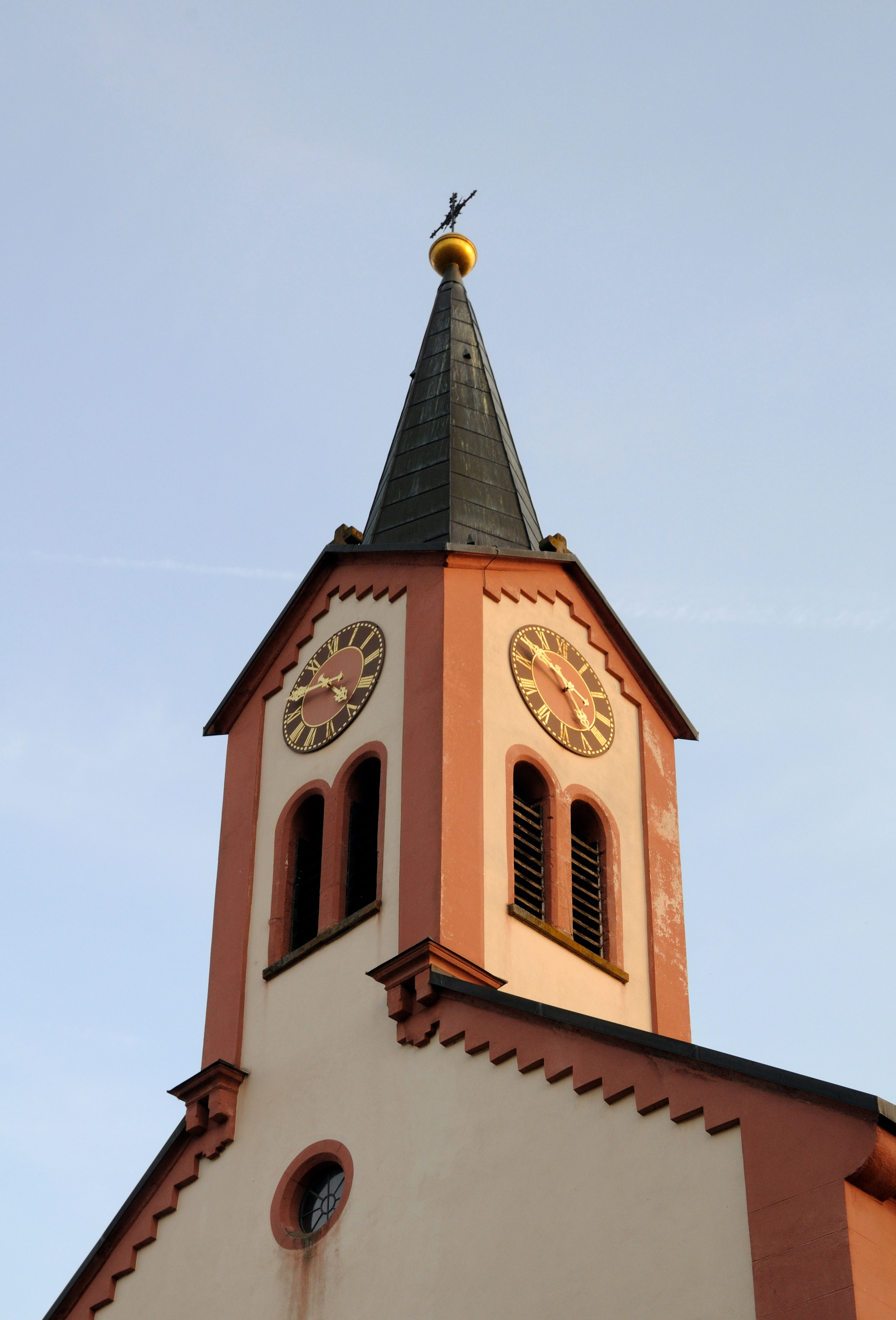 Feuerbach: Protestant Church (bell tower)